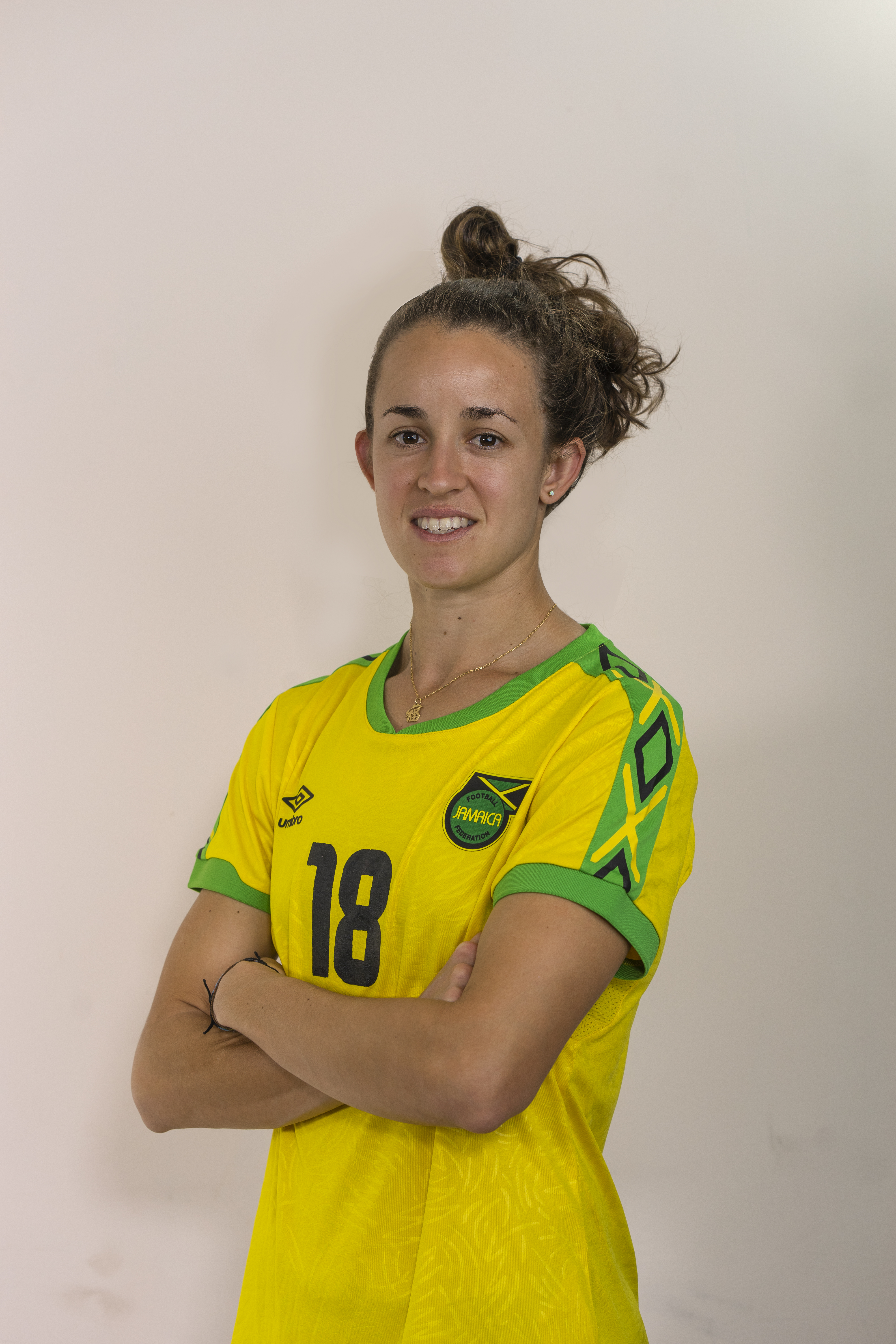 Reggae Girlz professional shot for World Cup